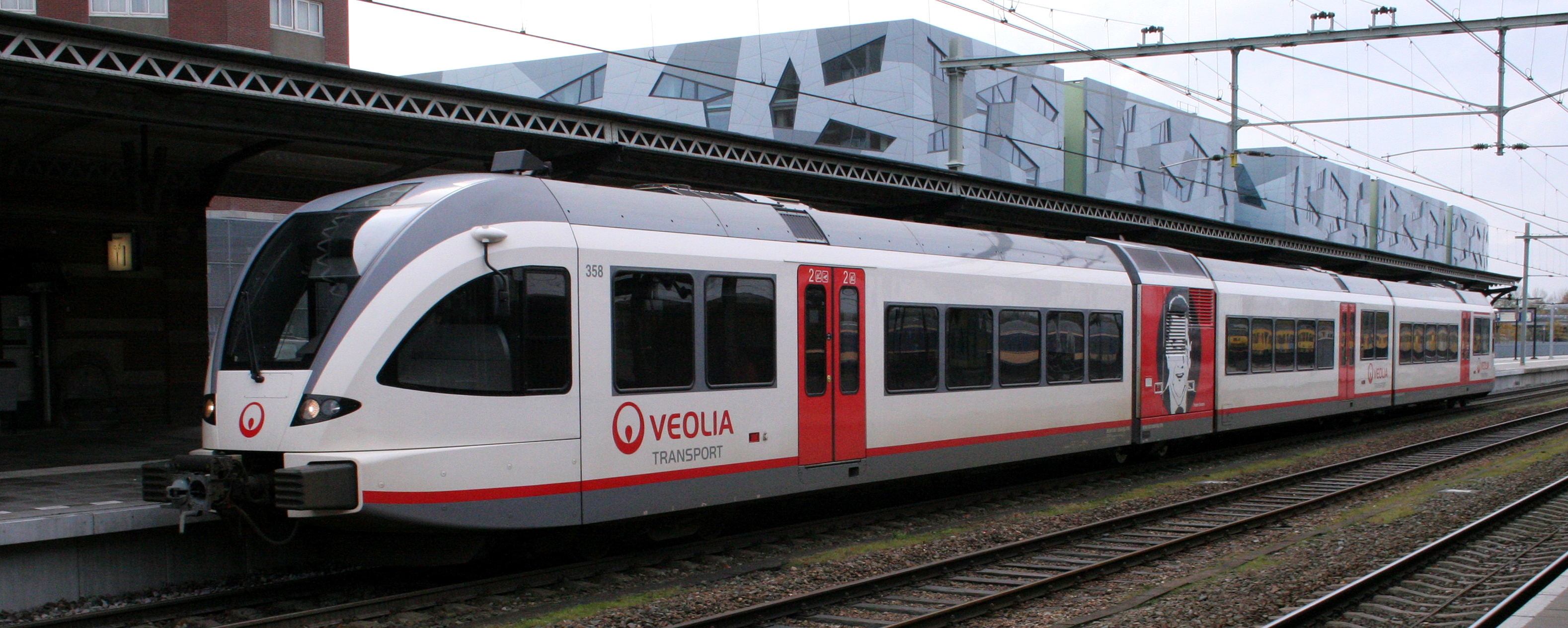 Veolia train in Nijmegen